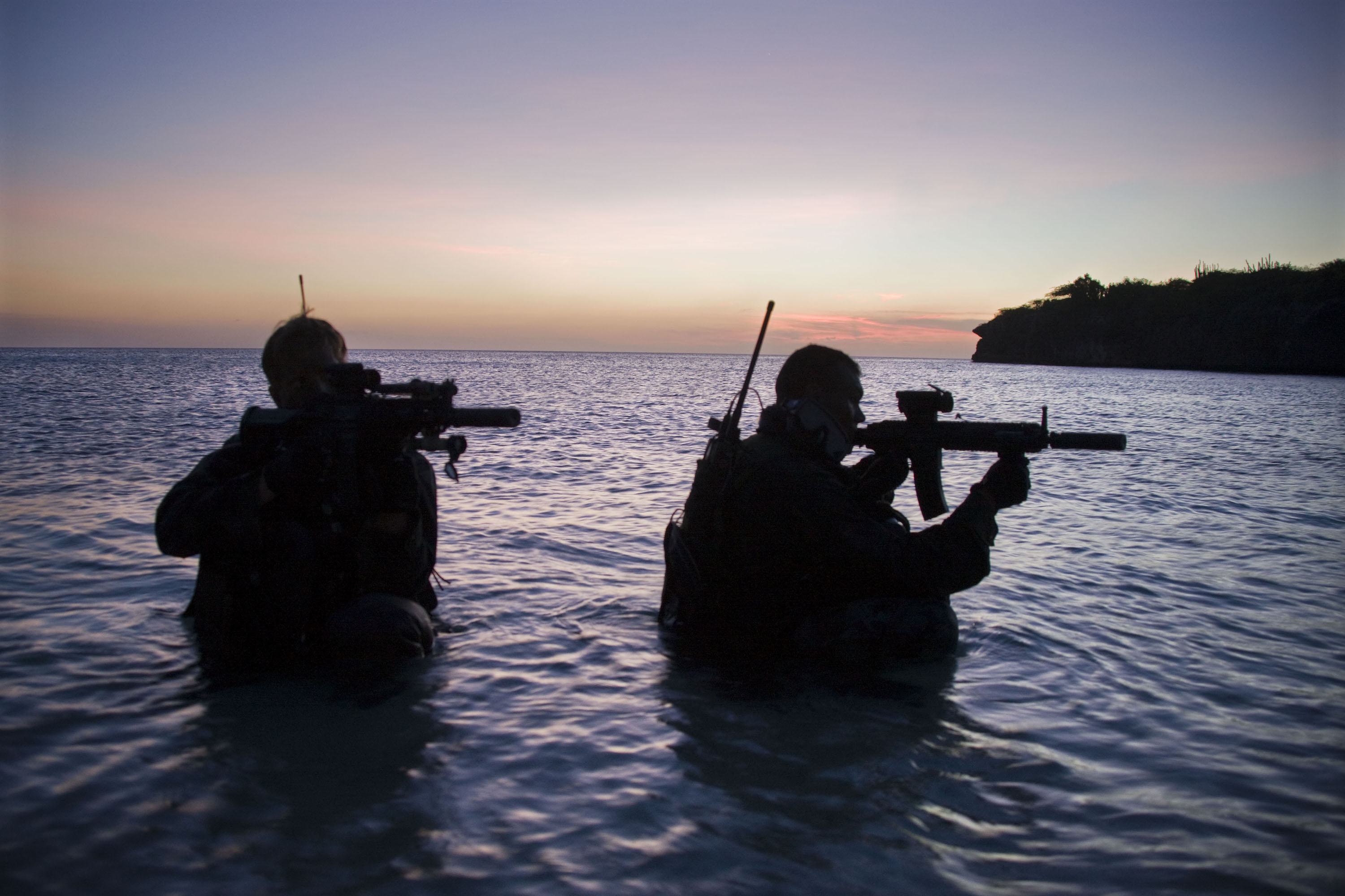 Dutch frogmen of NLMARSOF surfacing in hostile territory.